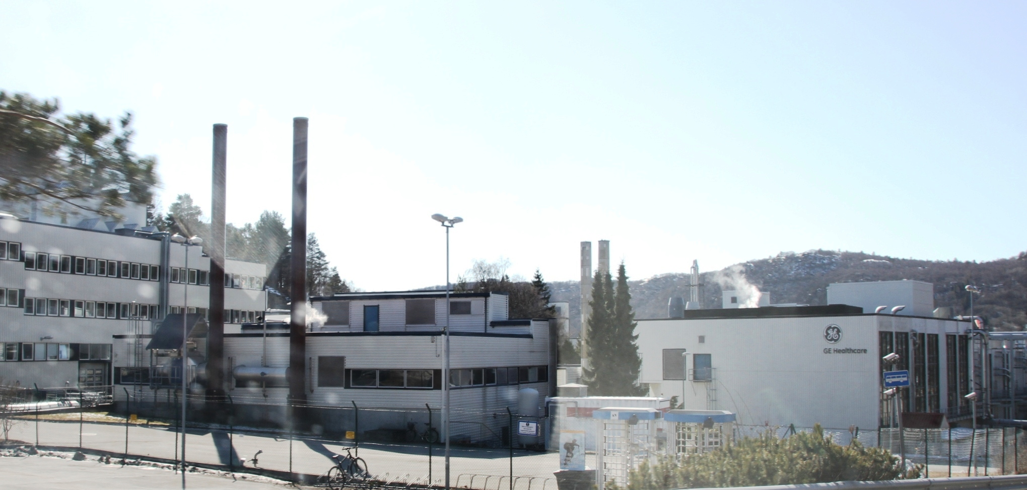 Image from the coastal county road No 460 (RV/FV 460), in Lindesnes municipalities, between Vigeland town and Lindesnes lighthouse.